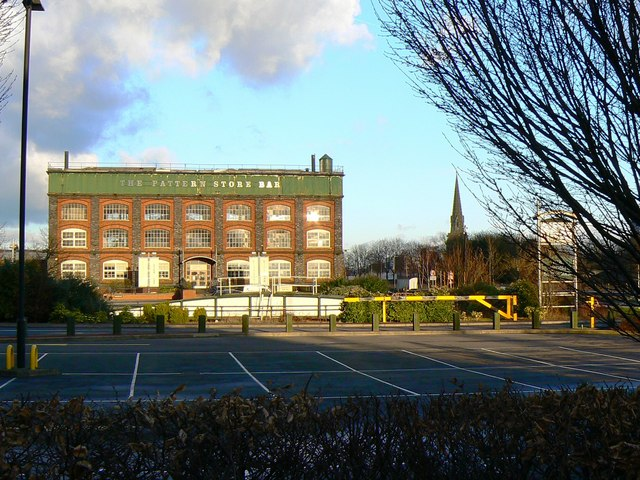 The Pattern Store Bar, Penzance Drive, Swindon Originally the building was a pattern store used by the GWR. It is a listed building as is most of what remains of the old railway works. The church at right is St Marks, Church Place at SU 143847.